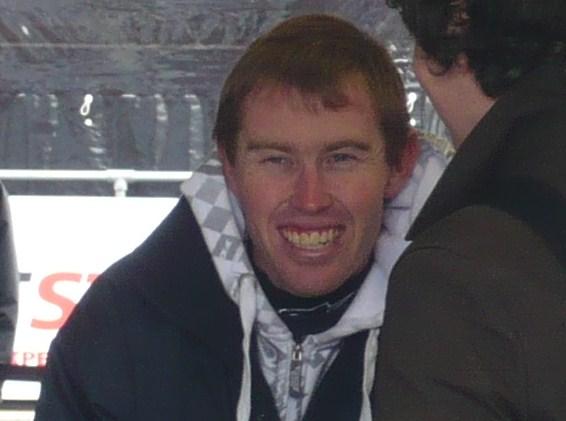 John Martin in the paddock. Photo taken by me at Silverstone's 2010 SF round.